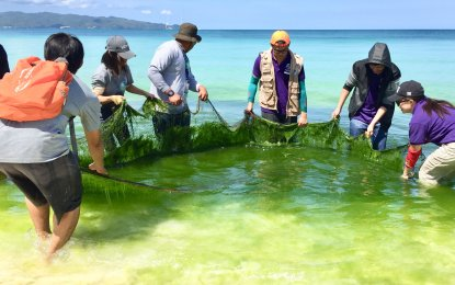 Workers gather the algal blooms floating in the water using a fish net as part of the first day cleanup in Boracay Island